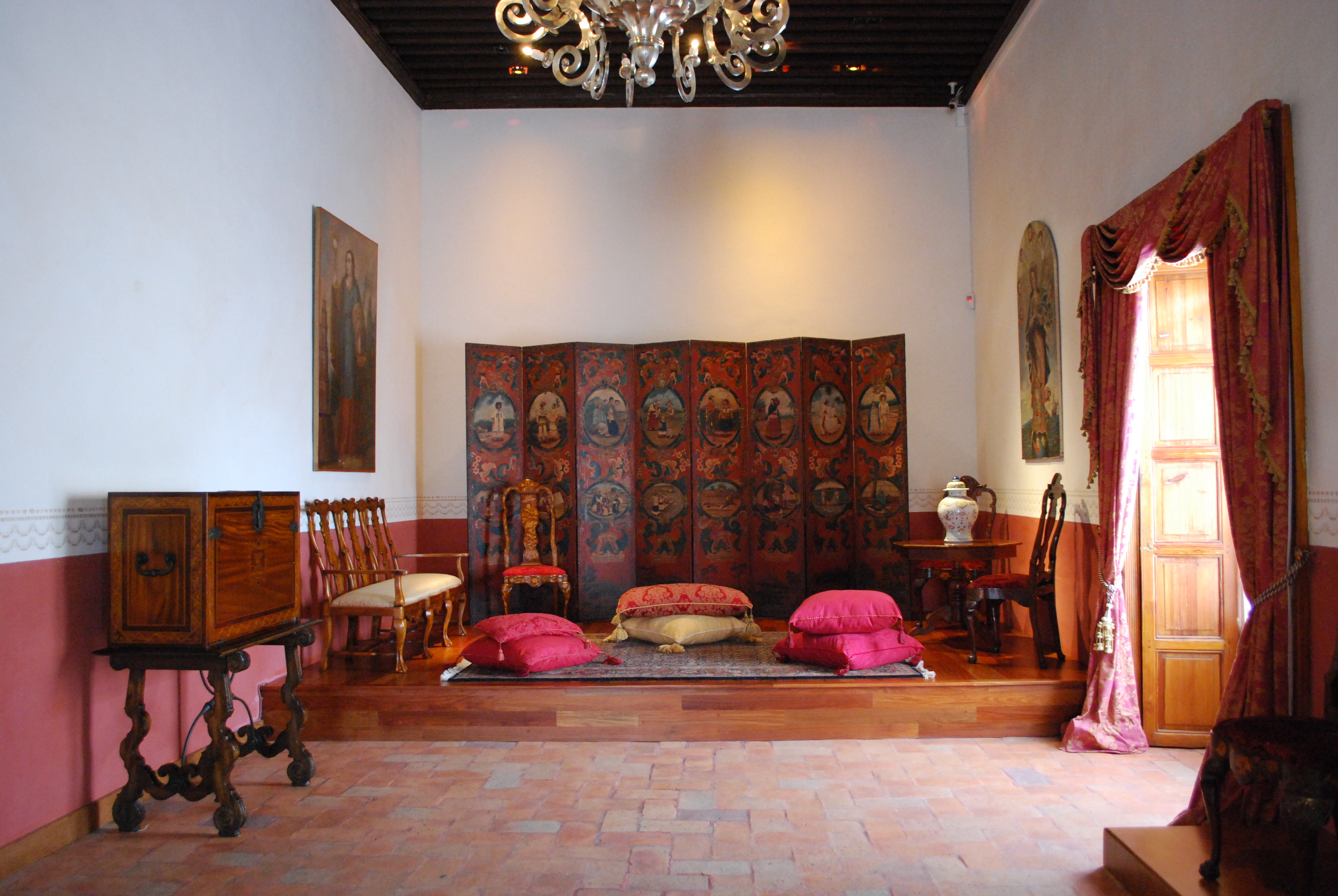 Sala in the Allende House museum in San Miguel Allende, Guanajuato, Mexico